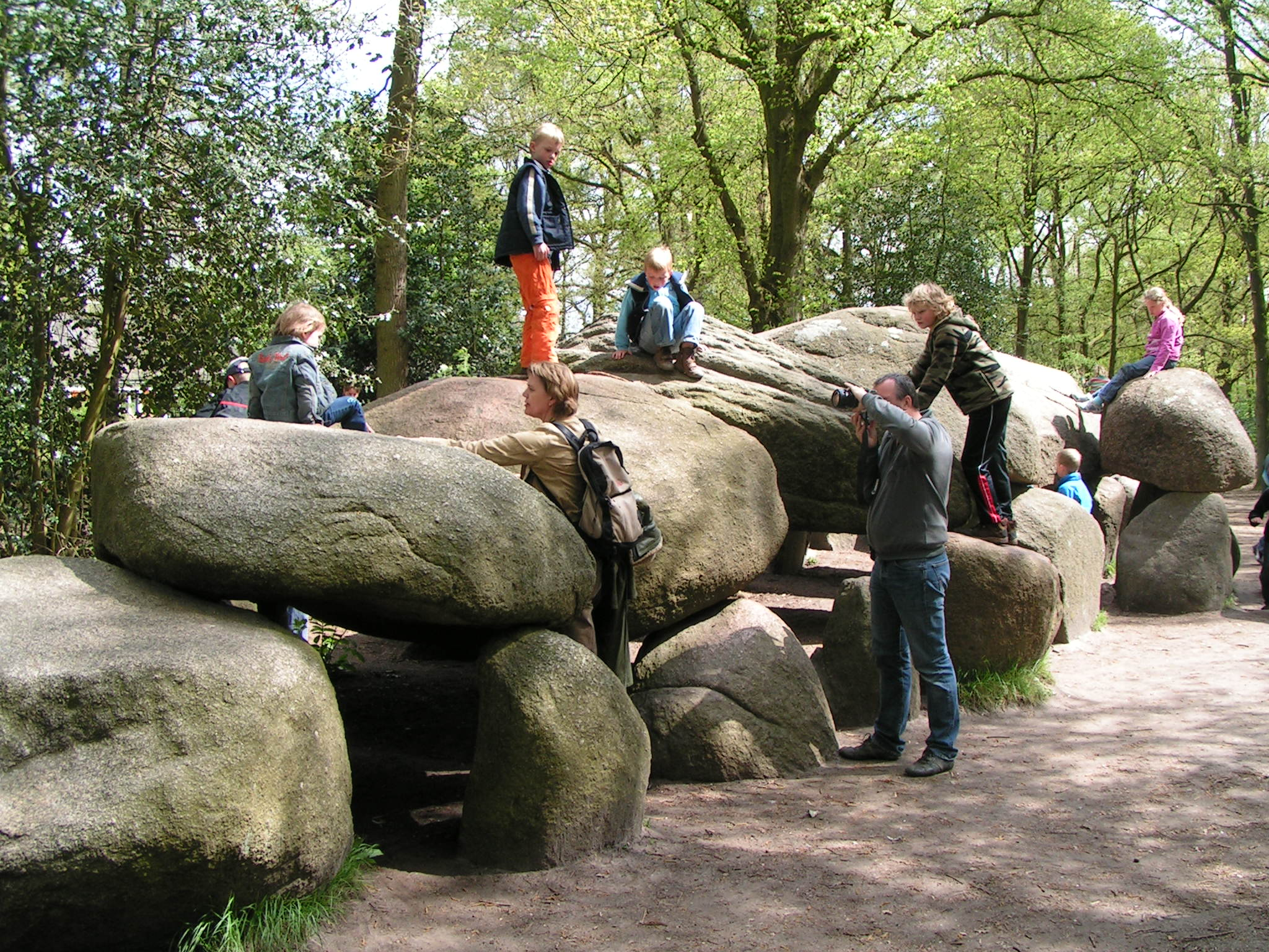 Megalith in Borger (Drenthe / Netherlands)